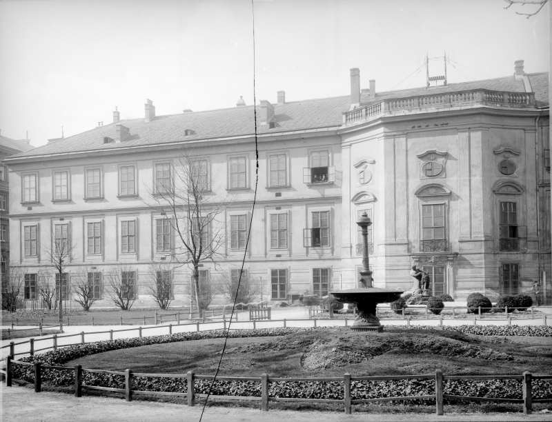 Palais Kaunitz Esterhazy in Wien, August Stauda 1906, Gartenfront: Mittelrisalit und linke Hälfte frontal.